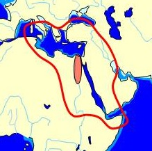 Documented extent of Ancient Egyptian geographic knowledge